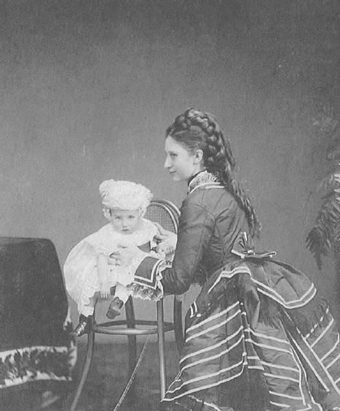 Louise of Sweden, Crown Princess of Denmark with her eldest child (future King Christian X of Denmark)